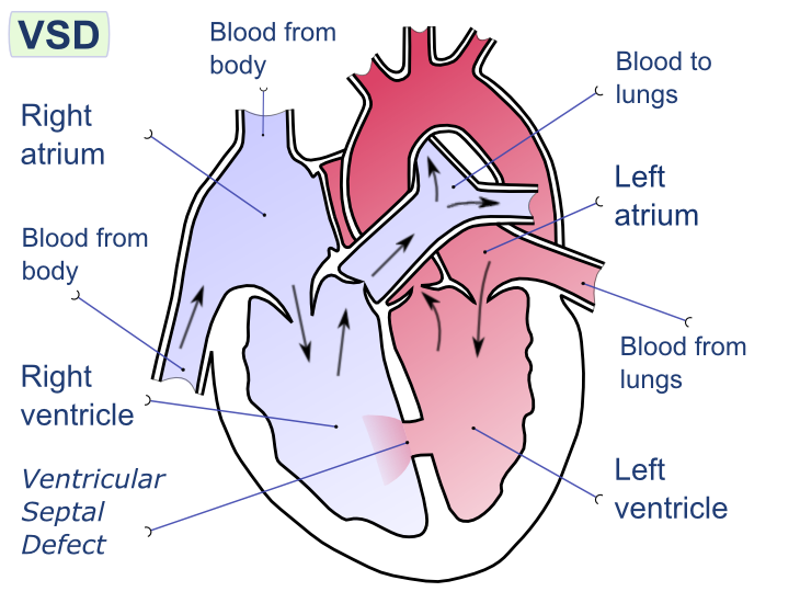 Ventricular septal defect (VSD) is a defect in the ventricular septum, the wall dividing the left and right ventricles of the heart.